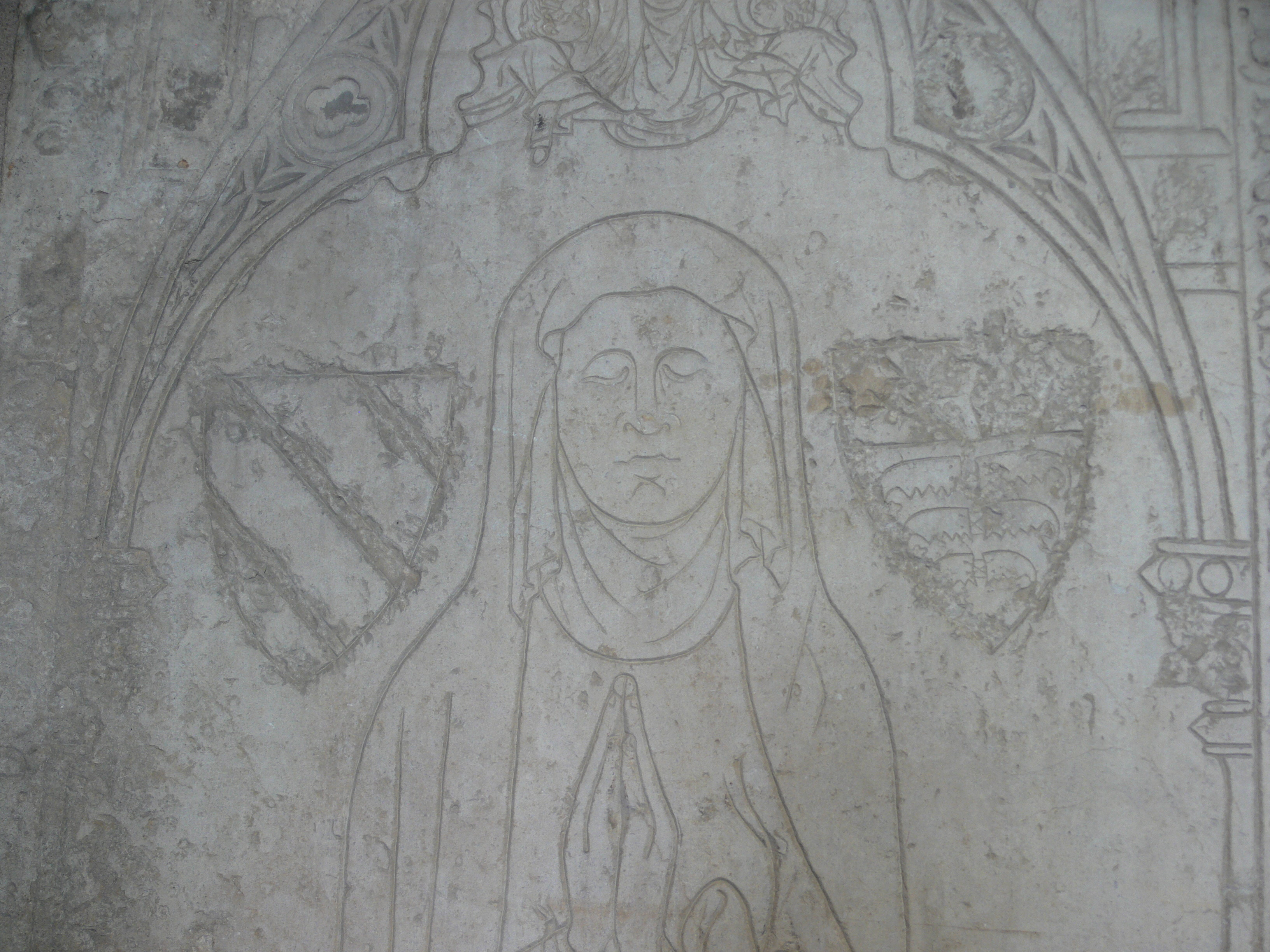 Tombstones of Héloïse de Joinville, fonder of the convent of Montigny-lès-Vesoul (dead 1312). Was in the convent church. Nowadays held at the musée Georges-Garret, Vesoul, 925.1.1